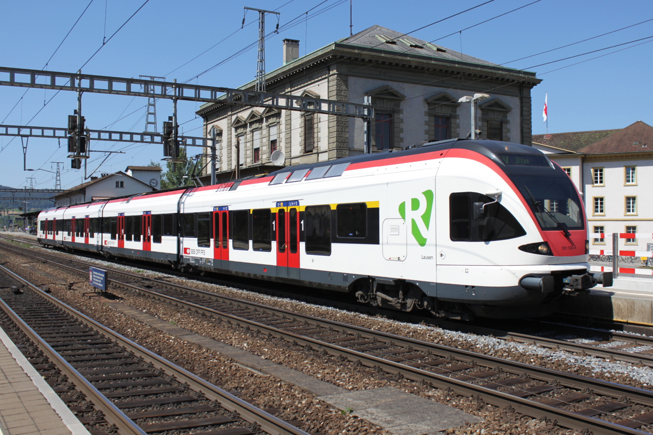 SBB CFF FFS RABe 521 022-4 at Liestal train station.